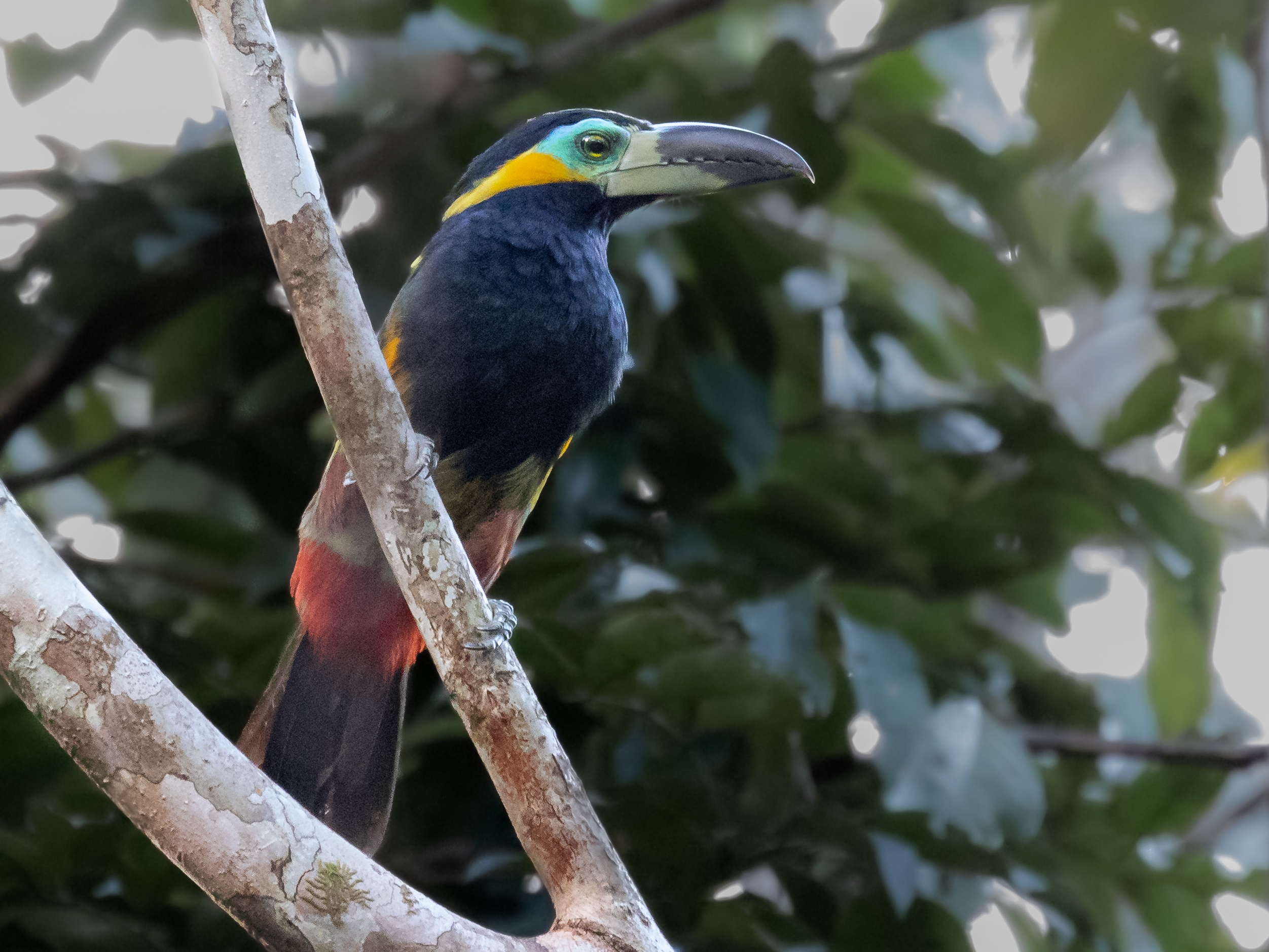 Golden-collared toucanet (male); Careiro, Amazonas, Brazil